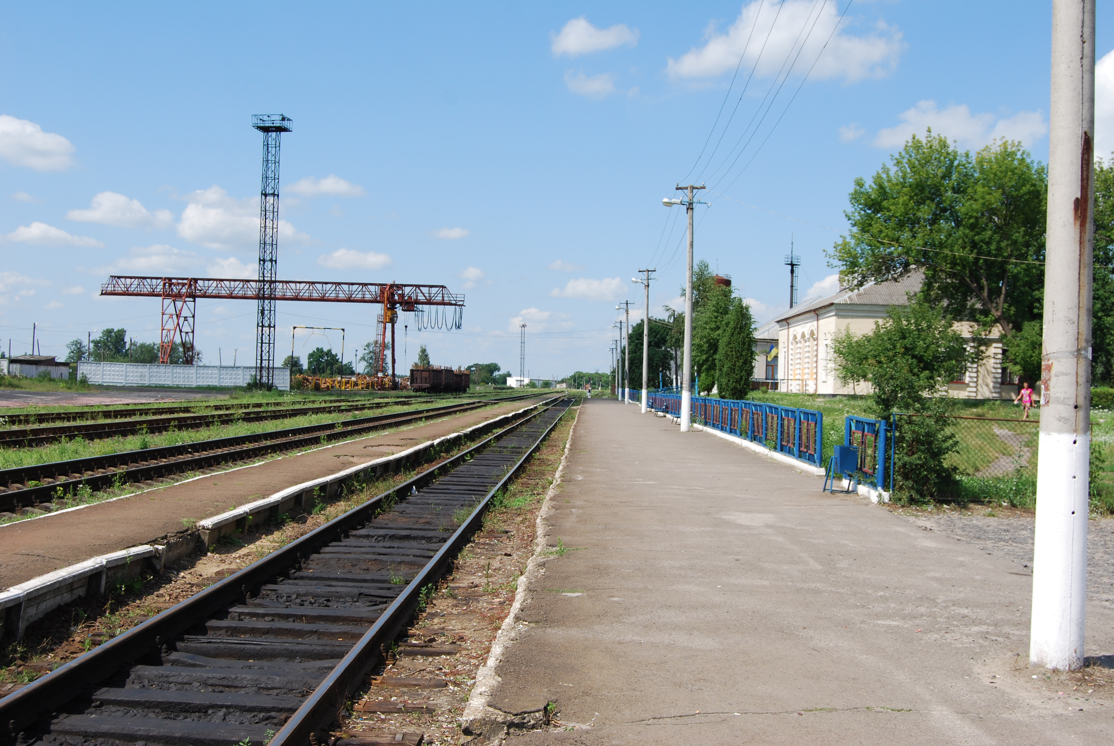 Rafałówka - the view on railway station. From this place Germans deported Polish refugees from Huta Stepańska for forced labor in the Reich in 1943.